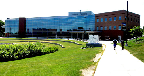 Eastern Michigan University Student Center In Ypsilanti Michigan